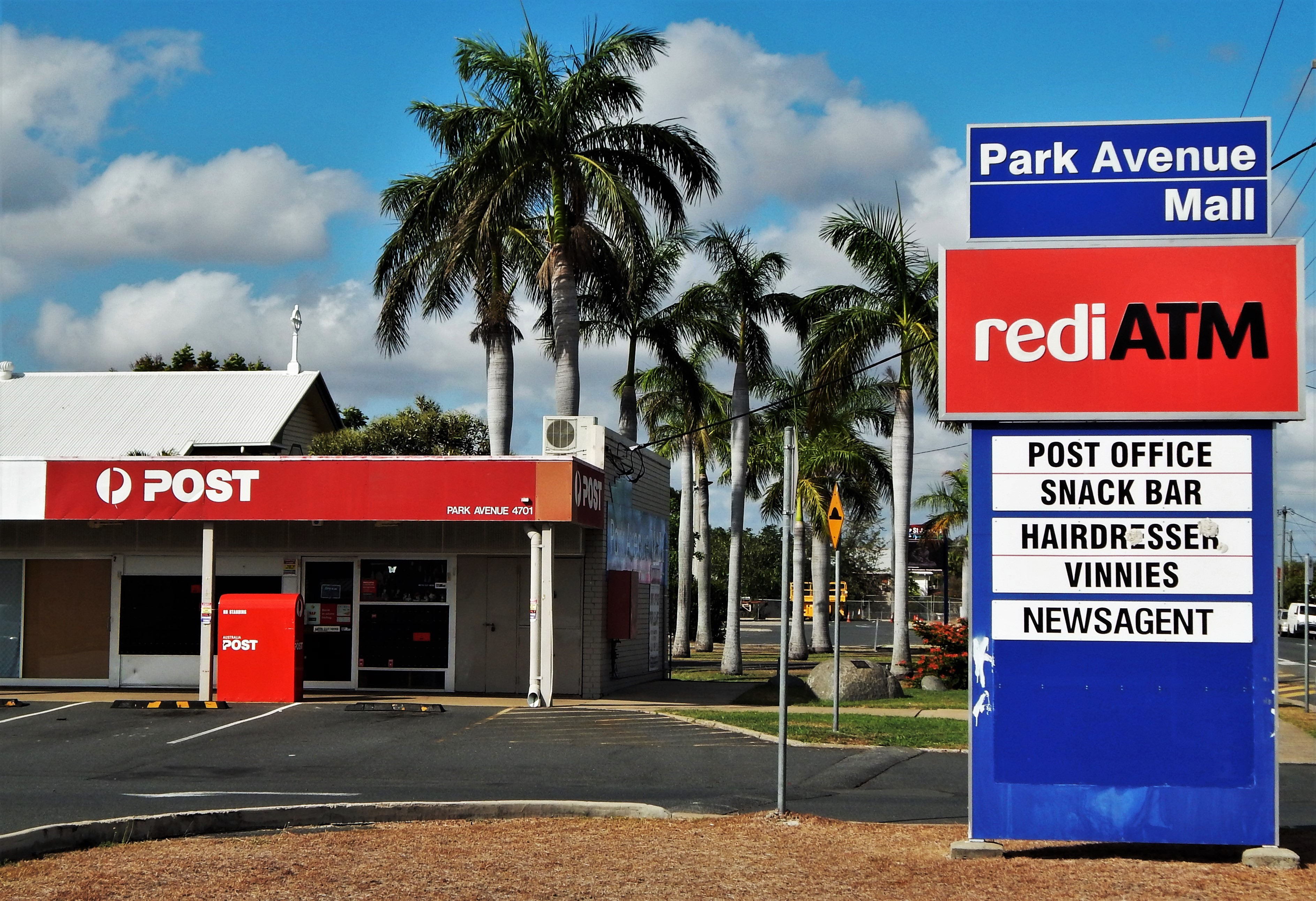 The local licensed post office in the Rockhampton suburb of Park Avenue, located in the Park Avenue Mall in Main Street